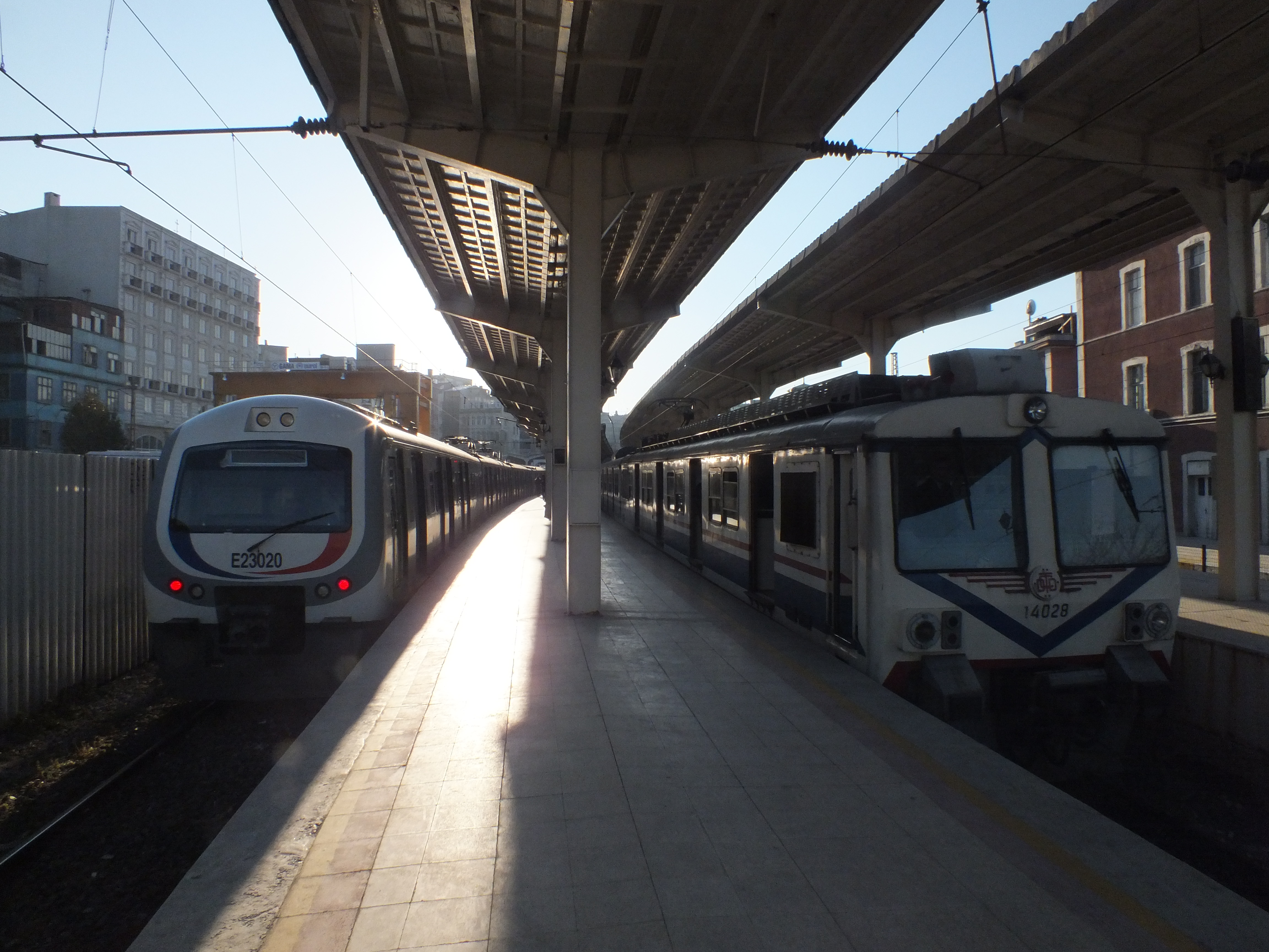 E23020, having just arrived, and E14028, getting ready to depart, at Sirkeci Terminal in Istanbul.